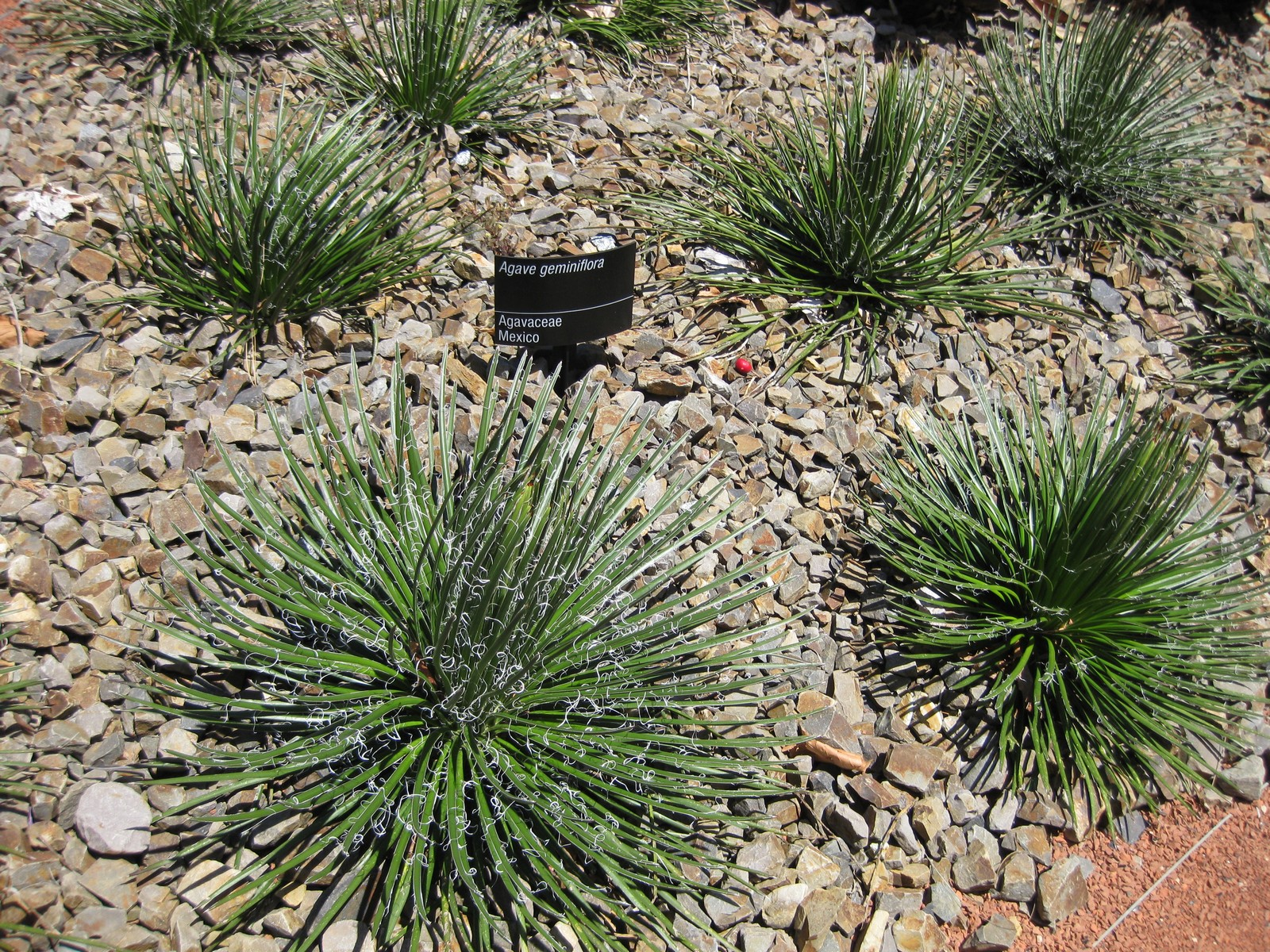 Photographed at the Royal Botanic Gardens Melbourne (Australia) in December